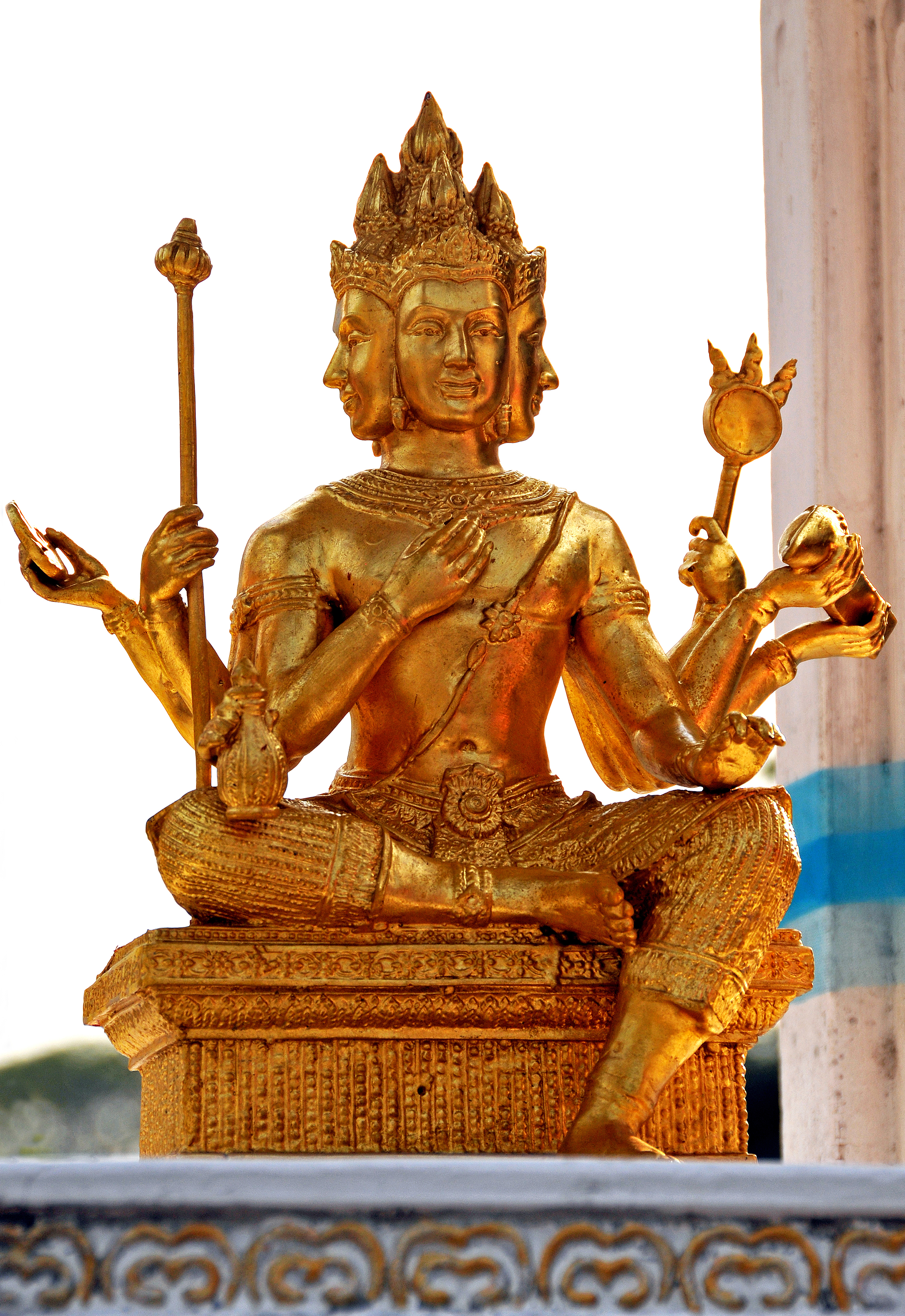 PLEASE, NO invitations or self promotions, THEY WILL BE DELETED. My photos are FREE to use, just give me credit and it would be nice if you let me know, thanks. This is a shrine on a street in Chiang Mai, Thailand. The four faces Buddha, each with a pair of hands offer help to people who cry out to him from all directions . The Conch Shell represents Wealth and Prosperity, The Position of Hand placed on the chest represents, offerings of Compassion, The Flying Discs represents the avoidance of disaster and calamities or to suppress evil. The Cita Mani ( a kind of fan used by monks for blessings ) represents the Buddha's Teaching and Faith. The Book in hand represents Knowledge, The Beads represents Controlling Karma, The Spear Stick represents Will Power, The Flower Vase represents Blessing of Water for Wishes, Each face signifies safety , fortune , blessing and compassion: Face of Wealth and Prosperity Face of Peace and Health Face of Protection Against Evil Face of Good Blessing